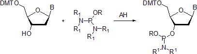 Synthesis of 5'-O-protected nucleoside phosphoramidites, Method 1